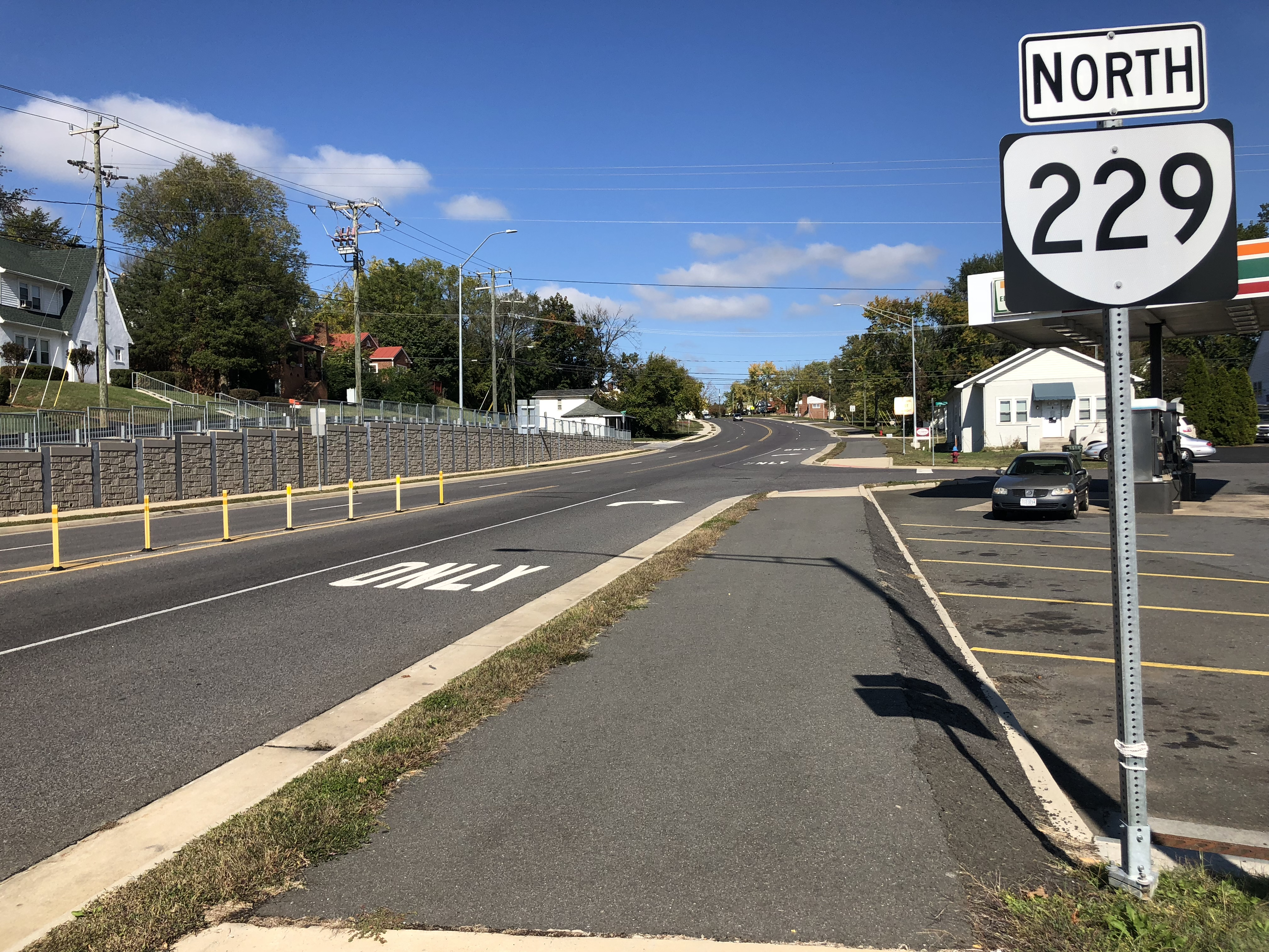 View north along Virginia State Route 229 (Main Street) at Sycamore Street in Culpeper, Culpeper County, Virginia